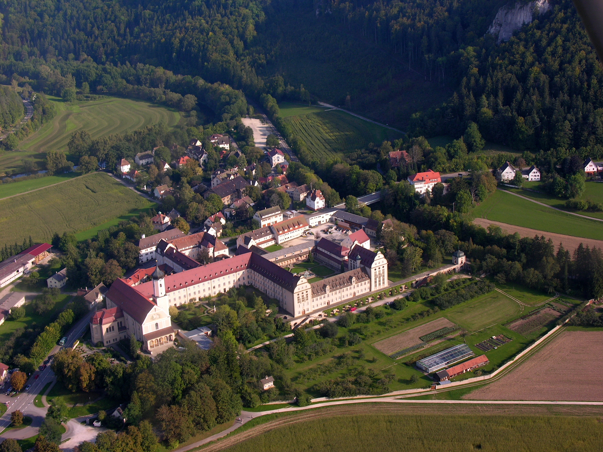 Germany, Baden-Württemberg, Aerial view of Beuron convent in the Danube valley